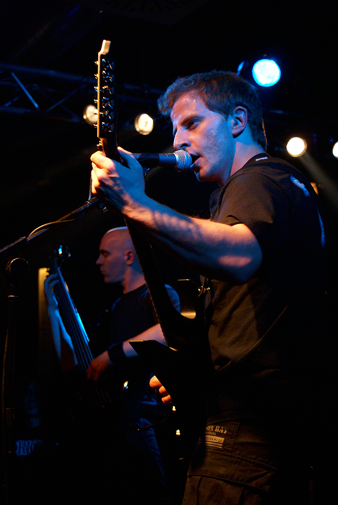 Stefan Fimmers and Muhammed Suiçmez of Necrophagist live in Munich 2007